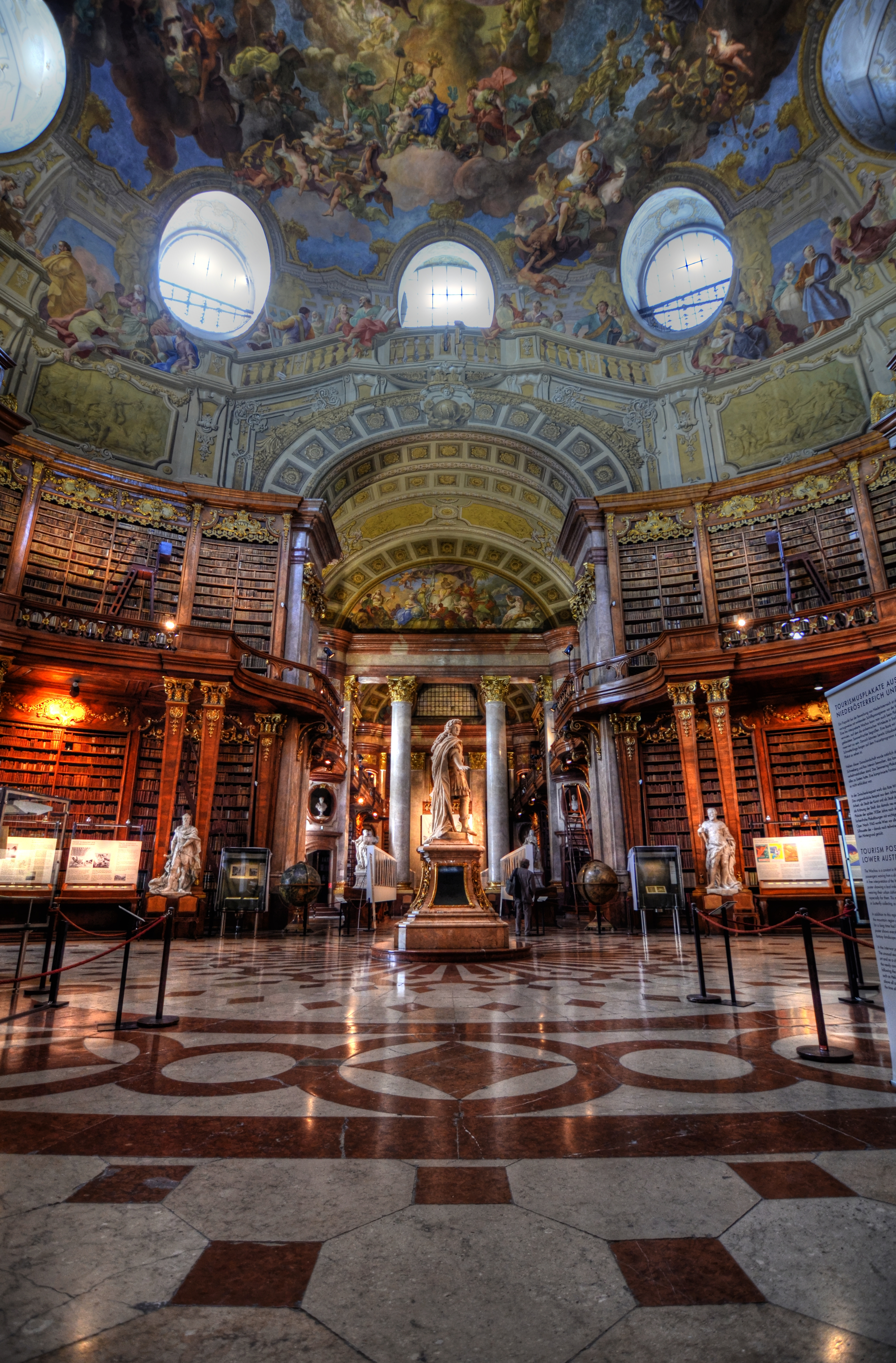 Austrian National Library. State Hall